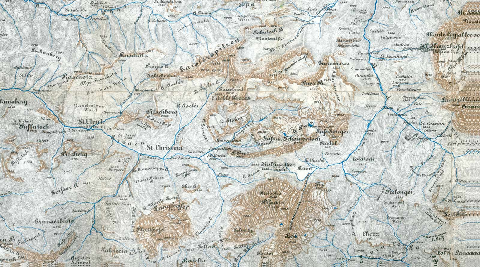 Map of the Dolomites by Paul Grohmann (1838-1908) printed 1875